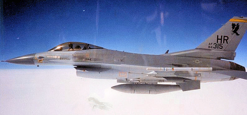 496th Tactical Fighter Squadron - General Dynamics F-16C Block 25E Fighting Falcon - 84-1315 Pilot: Capt. Steve Vihlen in his jet, F-16C "In The Mood". Photo taken over France from Hahn AB to Zaragoza AB for weapons training deployment 1987.